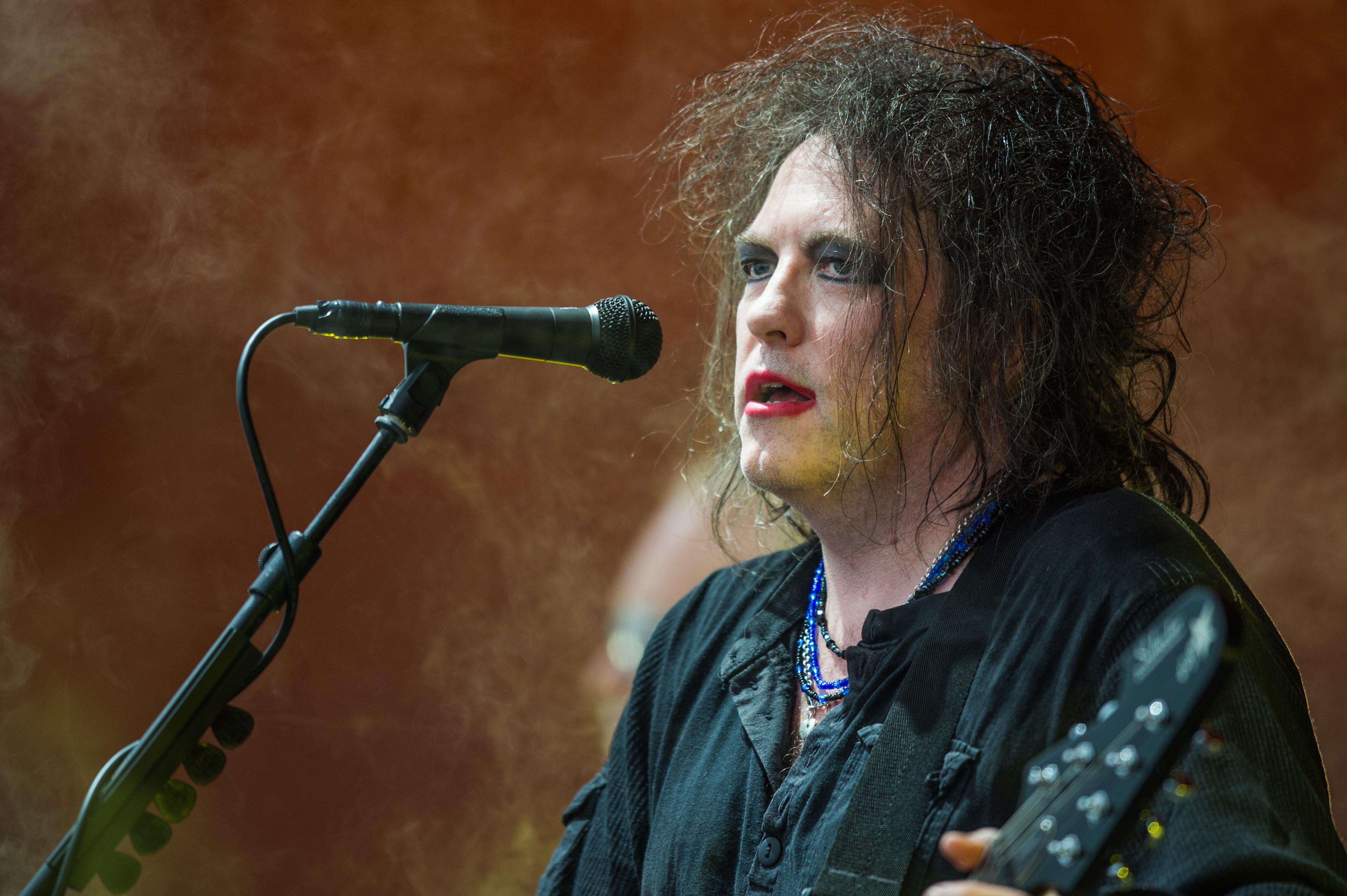 Robert Smith performing for The Cure on Roskilde Festival 2012. Photo by Bill Ebbesen.